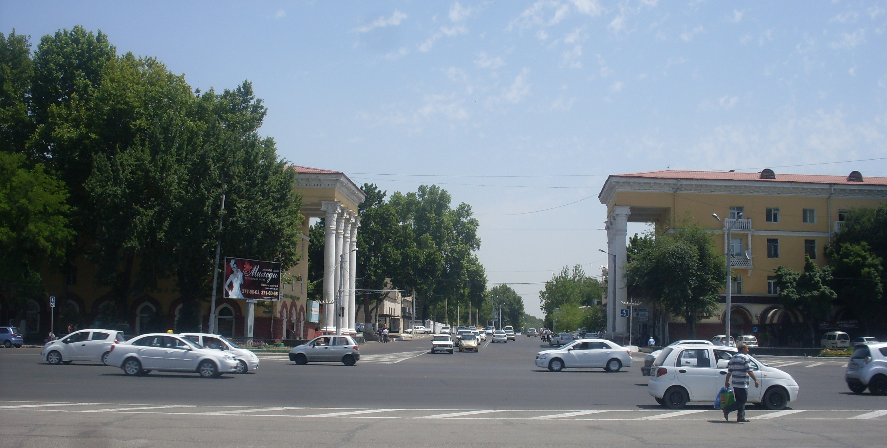 Square Besh-Agach